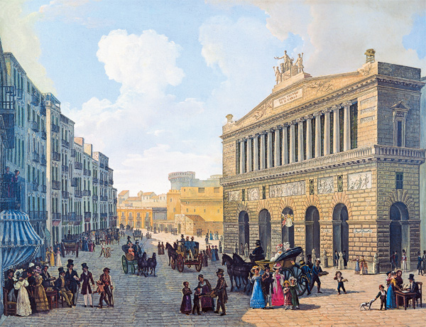 Naples, Teatro SanCarlo around 1830